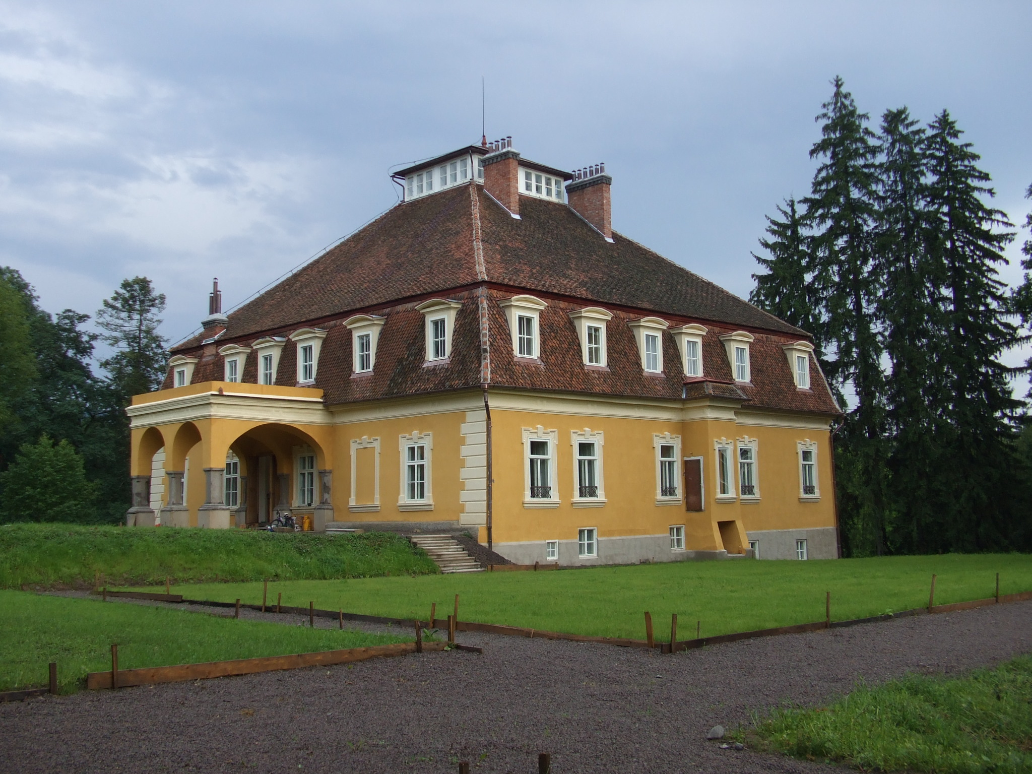 The Mikes Castle in Zăbala (hungarian: Zabola). Backside view.